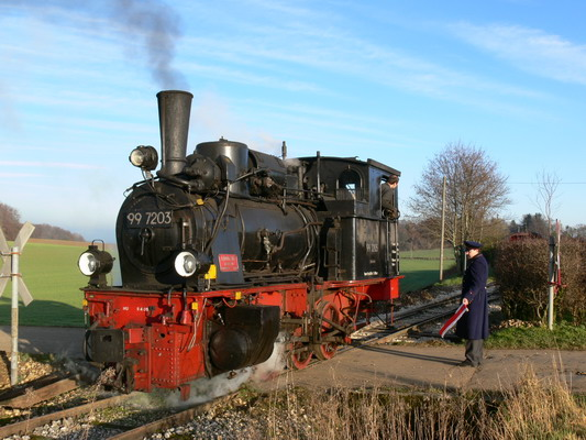 Baden Class C steam locomotive, DRG Class 99, narrow gauge, belonging to the Albbähnle railway in southern Germany